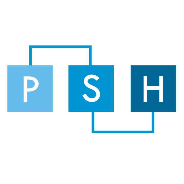 Short version of Polythematic Structured Subject Heading System logo